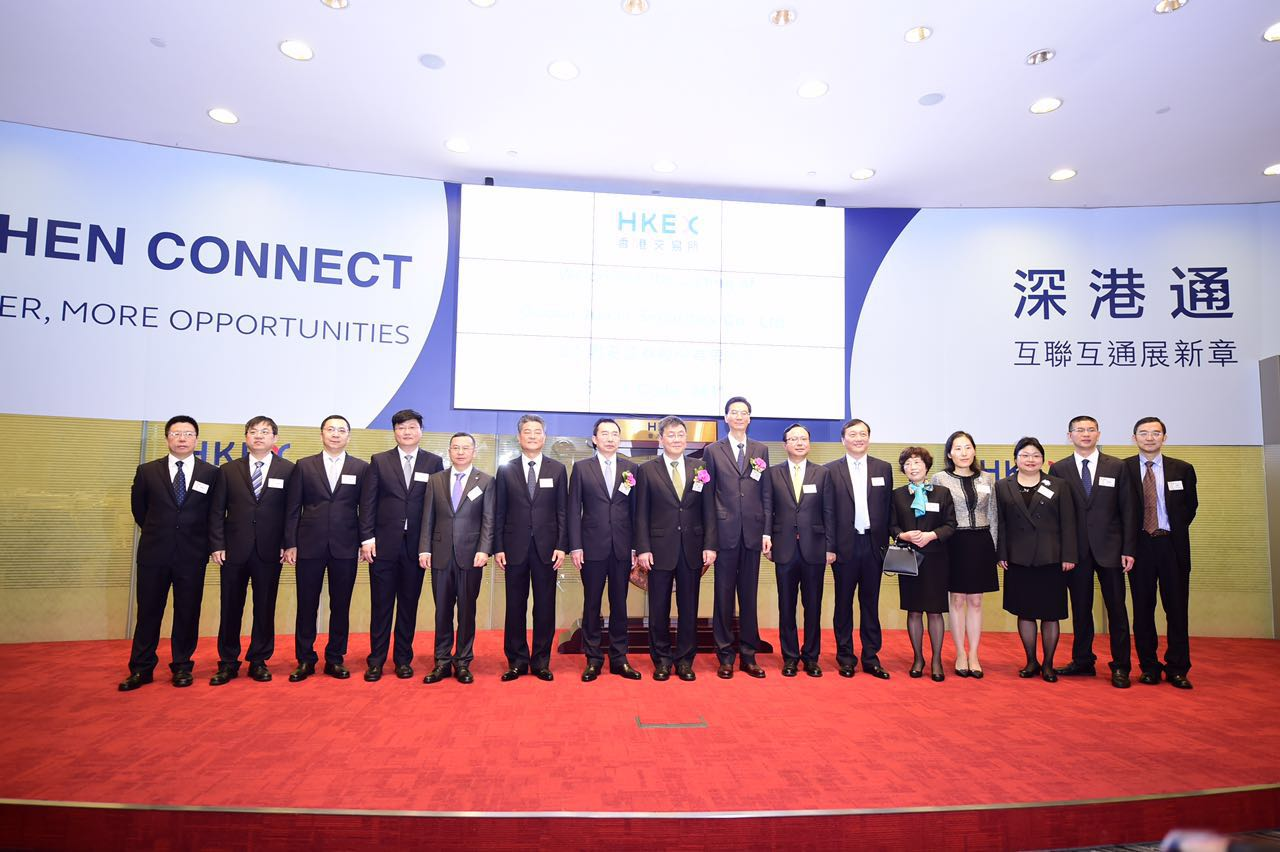 Guotai Junan Securities during its 2017 Hong Kong H-Share IPO